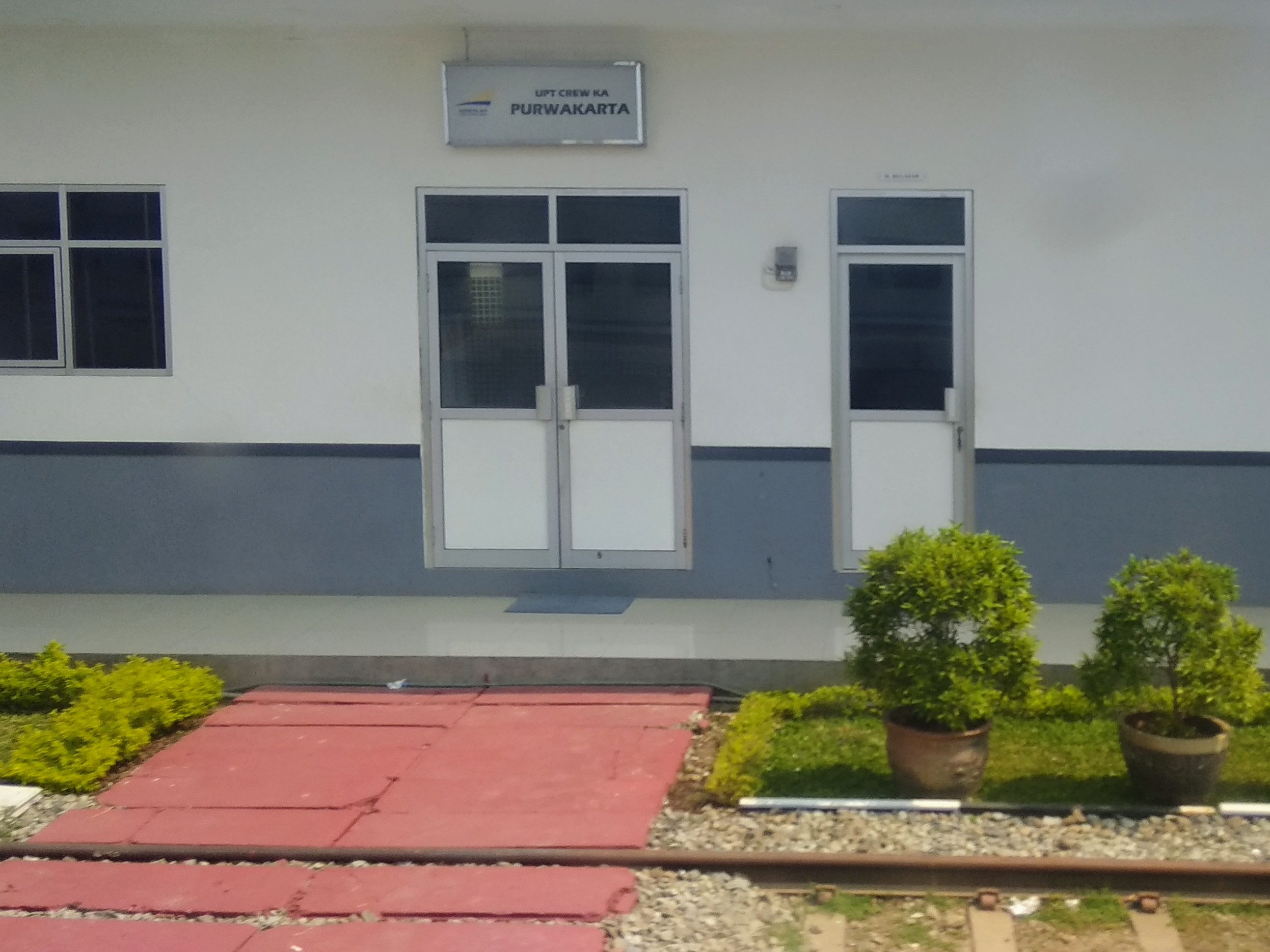 Train crew building Purwakarta